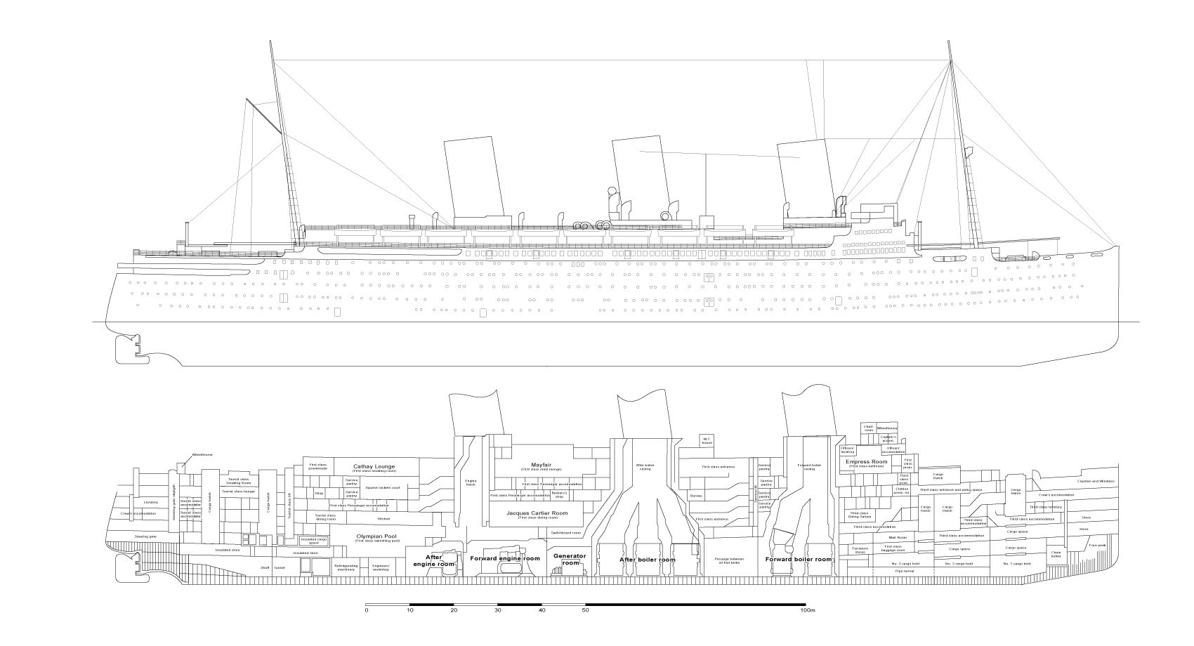 Side elevation plans of the Canadian Pacific [ocean liner] Empress of Britain. Traced from plans in The Shipbuilder and Marine Engine Builder. Some arbitrary correction necessary due to inconsistencies within The Shipbuilder plans.